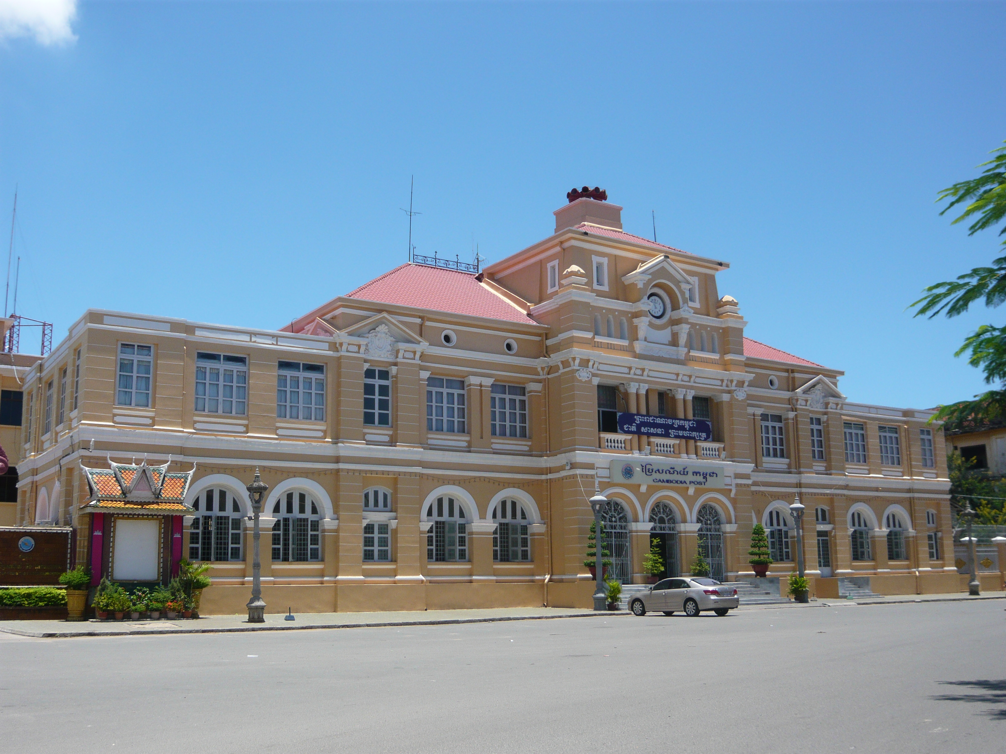 Central Post Office of Phnom Penh, Cambodia. It was built at the time of the French administration of Cambodia. Phnom Penh, Cambodia. July 2011.